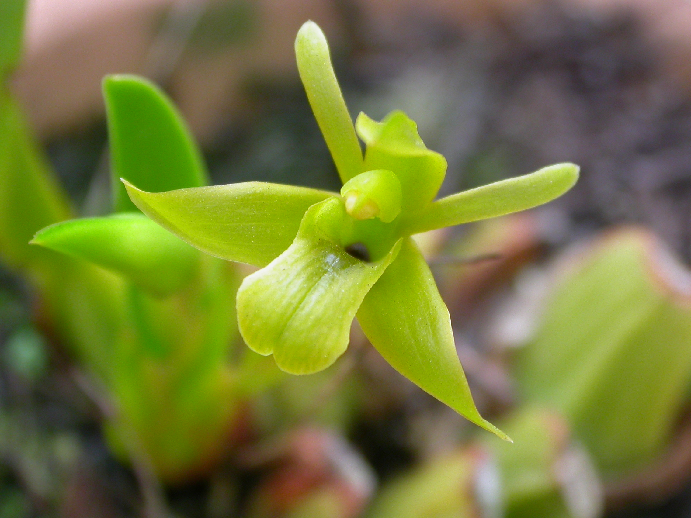 Maxillaria uniflora